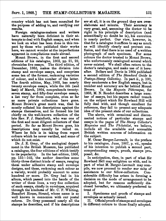 Page 131 from the Stamp-Collector's Magazine, Vol. VI, London, Sept. 1, 1868. Describes early stamp catalogues, including a catalogue issued by John Edward Gray (1866), "Les timbres-poste" by Oscar Berger-Levrault (June 1867), and other philatelistic issues.